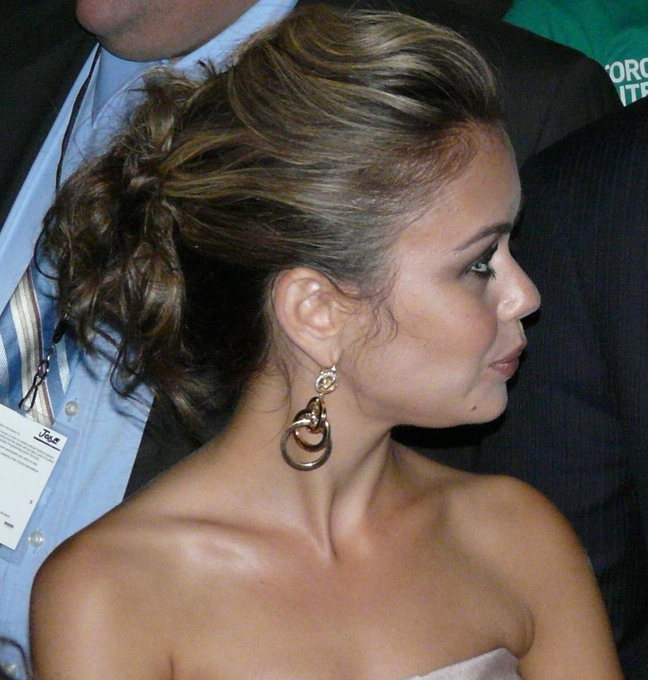 Alexis Dziena leaves the tiff '08 screening of Nick and Norahs Infinite Playlist.